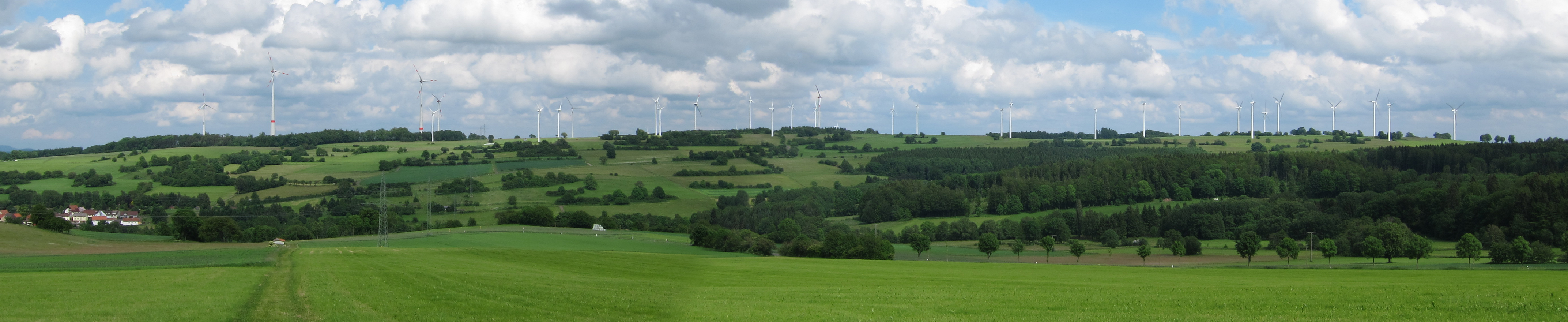 Golden Steinrueck, Vogelsberg, Hesse, Germany - view from west - June 2012